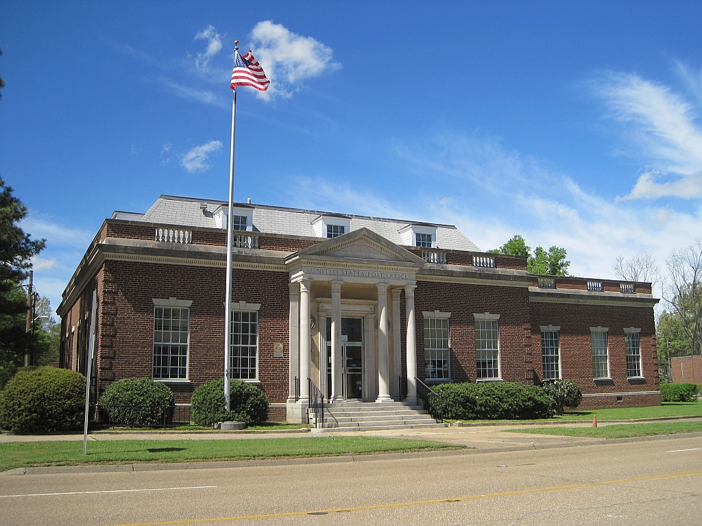 Brinkley, Arkansas Post office